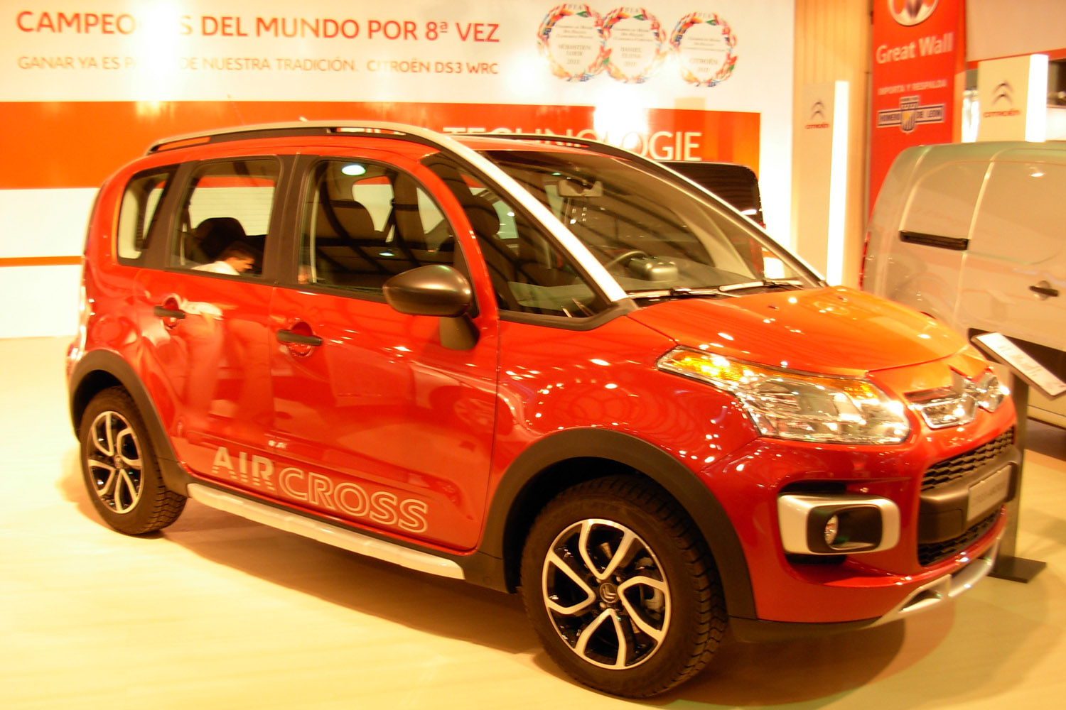 Citroën C3 Aircross at the at the 2012 Montevideo Motor Show.